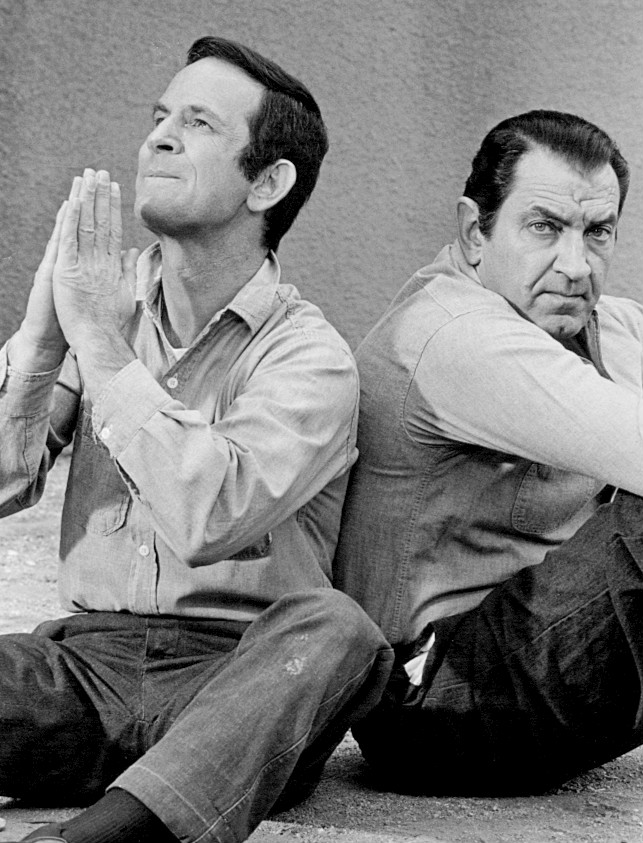 Photo of Don Adams (formerly Maxwell Smart-Get Smart) and guest star Bruce Gordon (formerly Frank Nitti-The Untouchables) in a scene from the "Two in a Pen" episode of the comedy series The Partners.